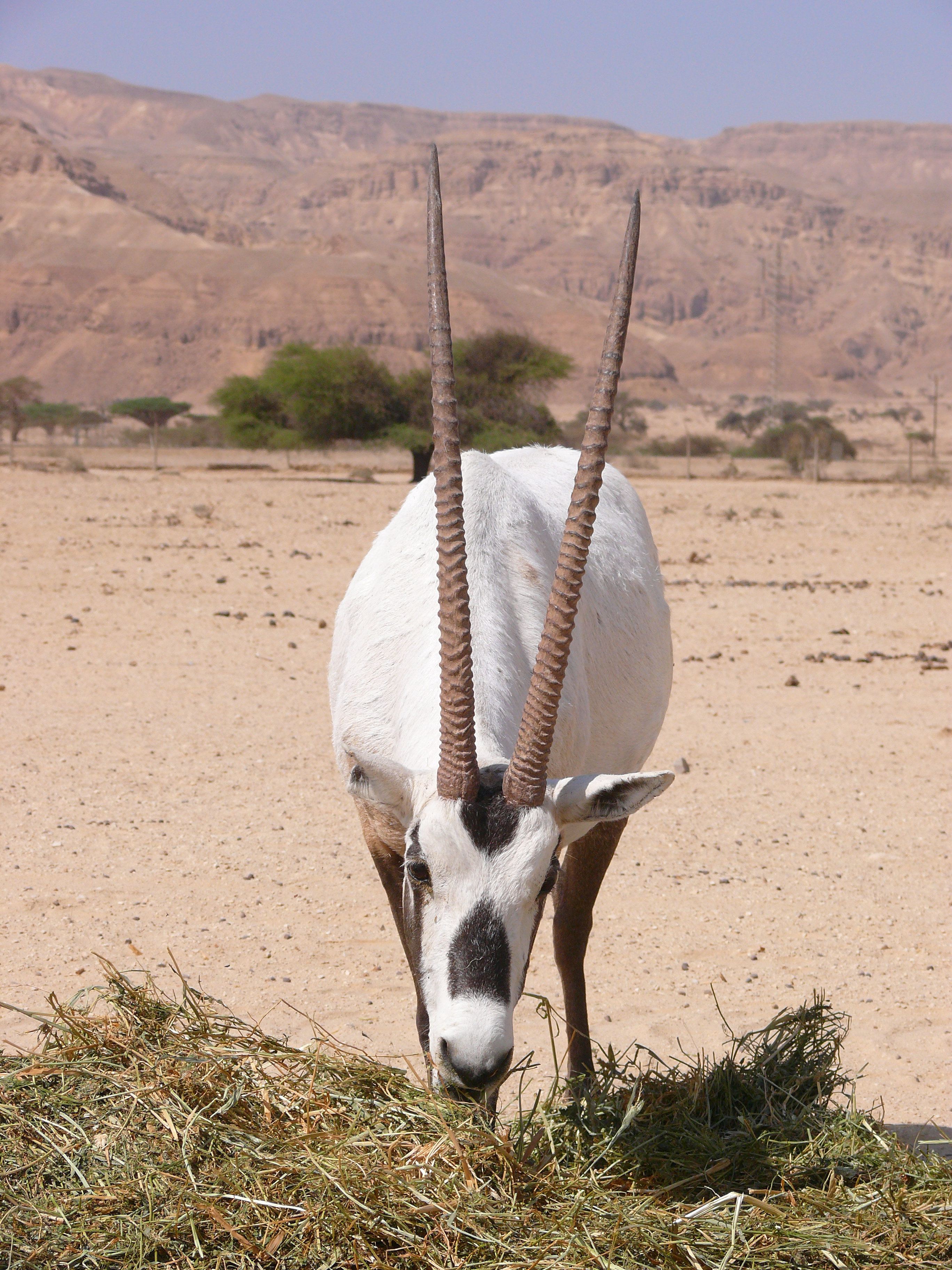 Oryx leucoryx, Chay Bar Yotvata, Israel